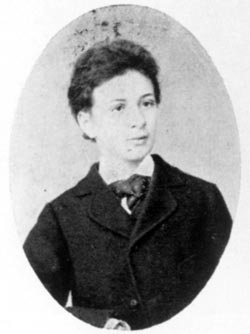 Ion I. C. Brătianu (1864 - 1927). Photo dating from 1882.